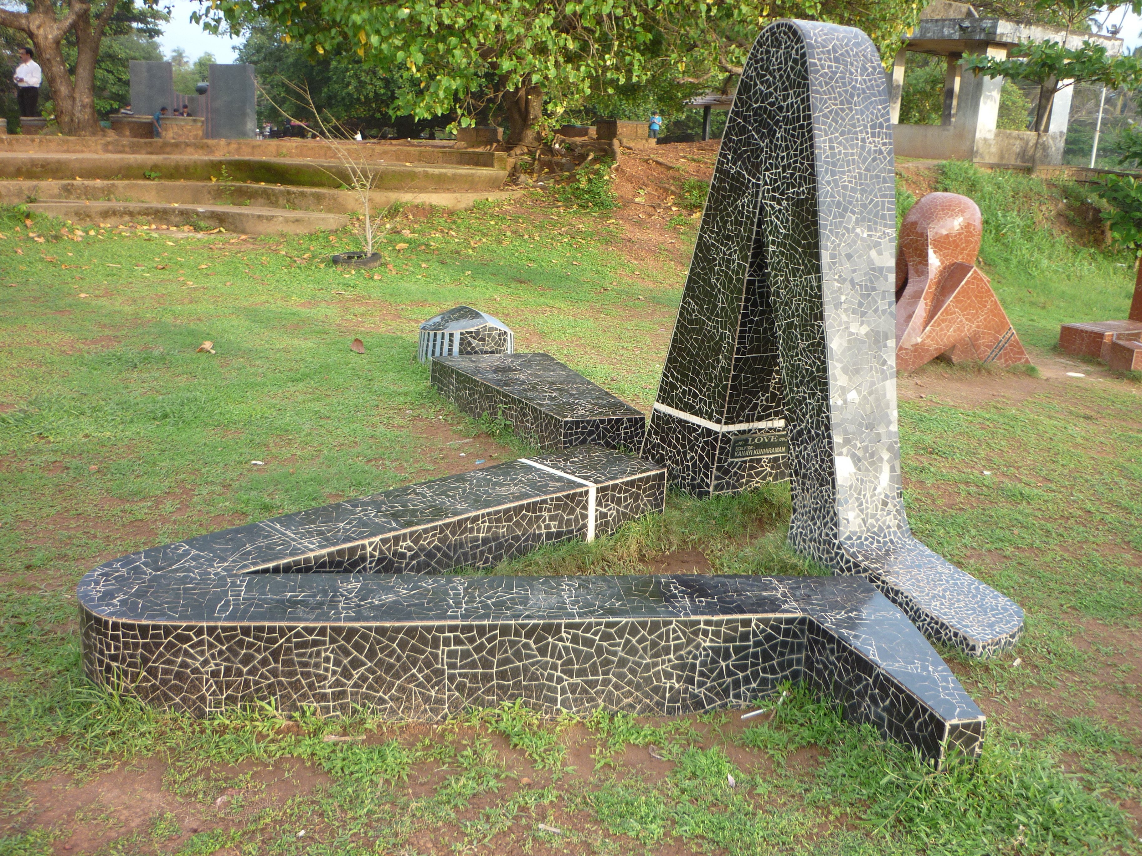 A statue in Payyambalam beach